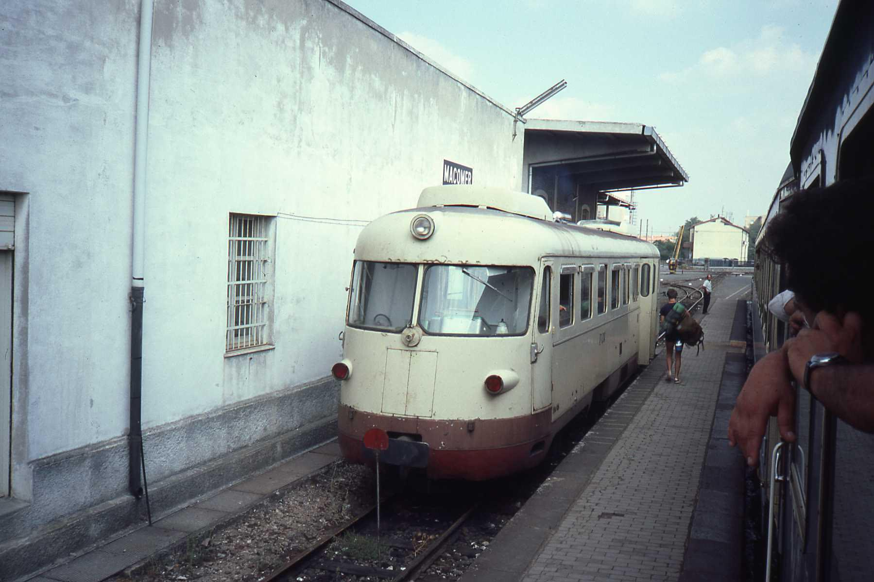 Railcar waiting for the connecting mainline train in Macomer FS station.